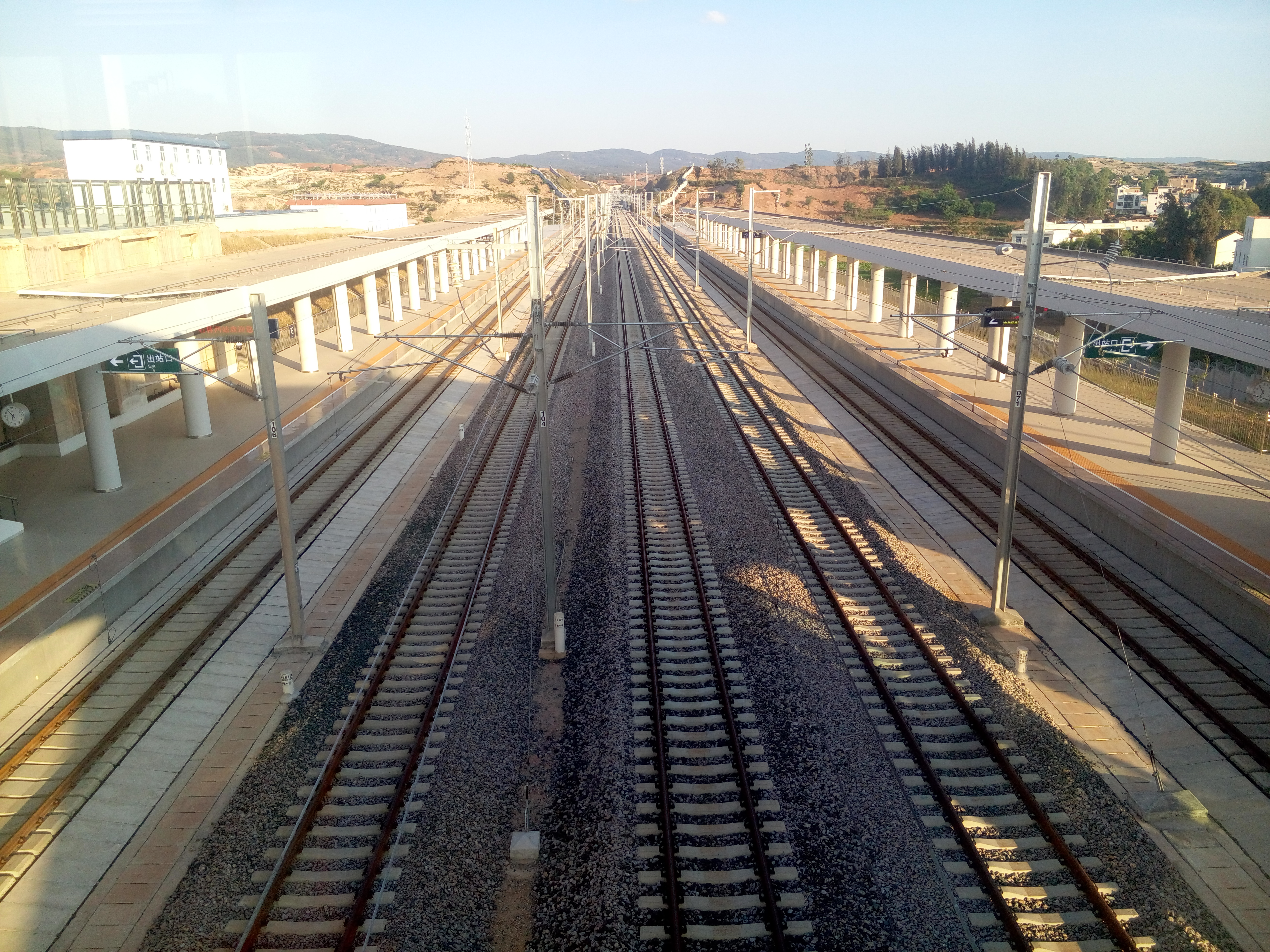 Track in Shilinxi Railway Station